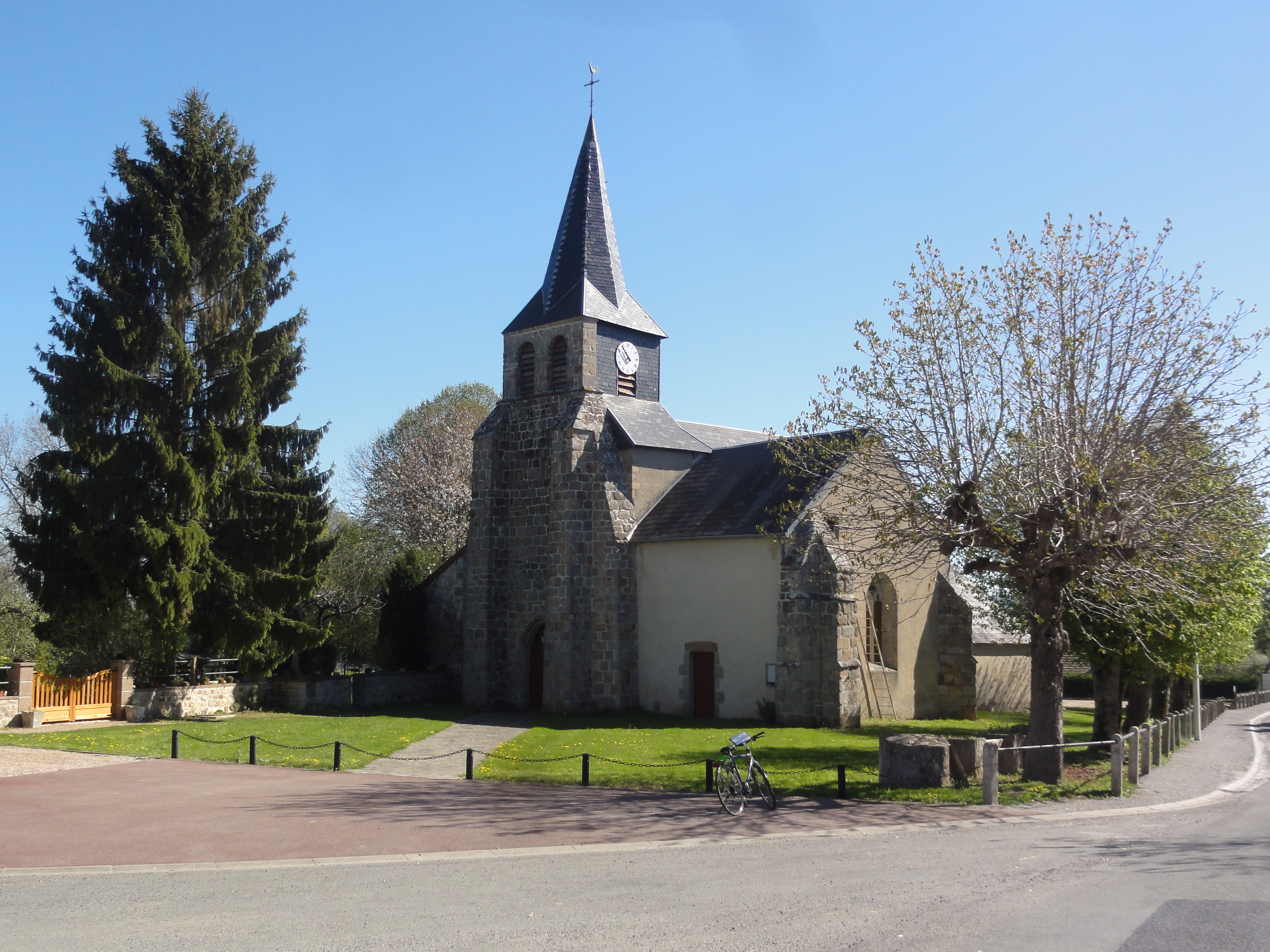 Roche d'Agoux (Puy-de-Dôme) église Saint-Genoux (Saint-Renoux)